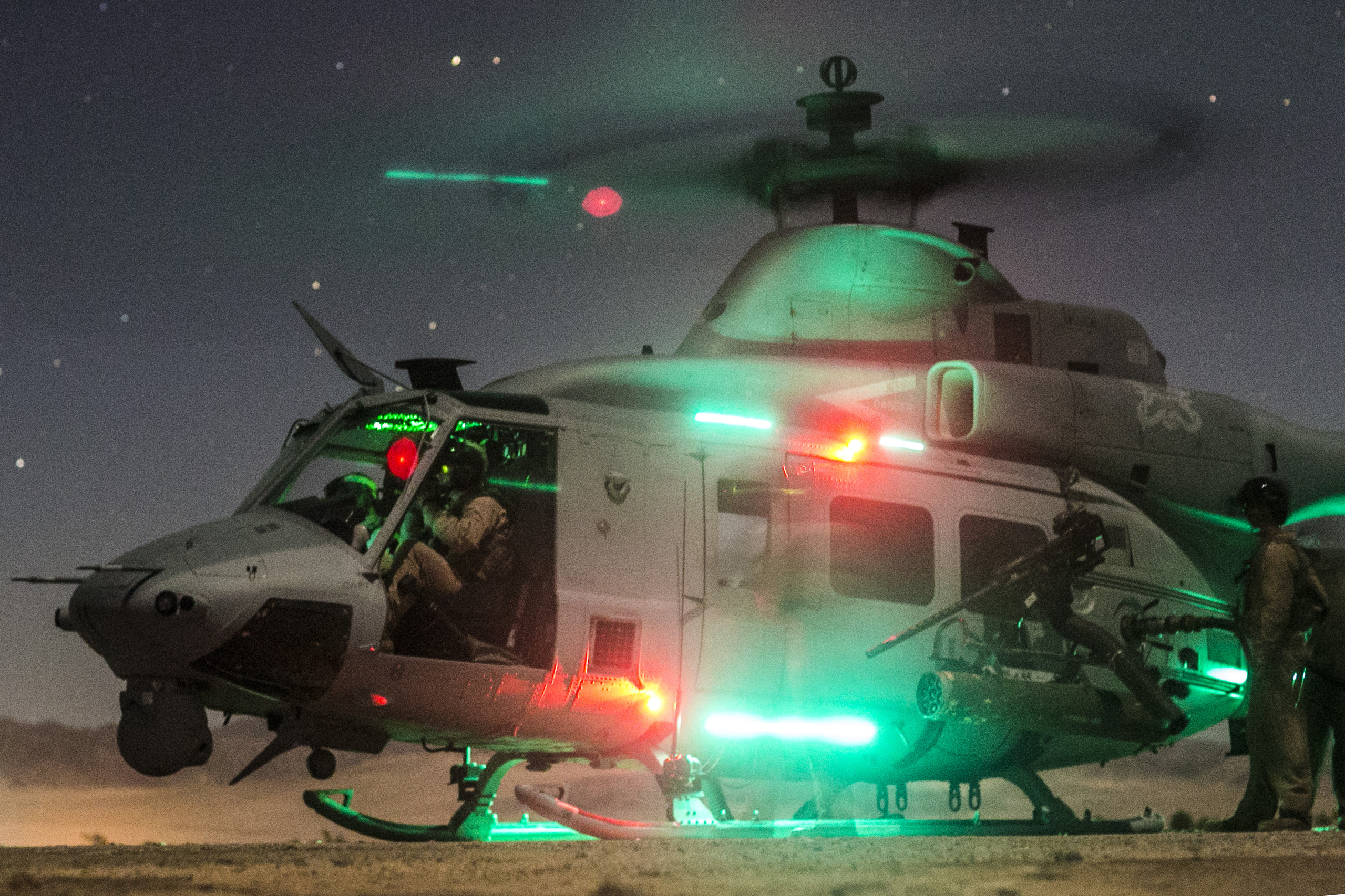 U.S. Marines assigned to Marine Aviation Weapons and Tactics Squadron One (MAWTS-1) refuel a UH-1Y Venom during Weapons and Tactics Instructor Course (WTI) near Twentynine Palms, Calif., March 27, 2015. WTI is a seven-week event hosted by MAWTS-1 cadre. MAWTS-1 provides standardized tactical training and certification of unit instructor qualifications to support Marine Aviation Training and Readiness and assists in developing and employing aviation weapons and tactics. (U.S. Marine Corps photo by Lance Cpl. Jodson B. Graves, 2nd MAW Combat Camera/Released)